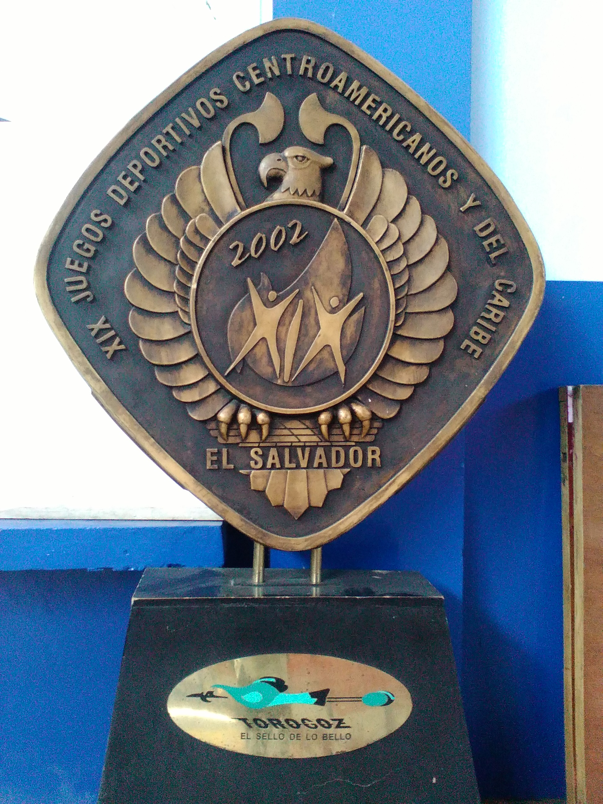 This monument is the replica of the official medal delivered to the winning athletes during the XIX Central American and Caribbean Games San Salvador 2002. The monument is at the University of El Salvador (UES).